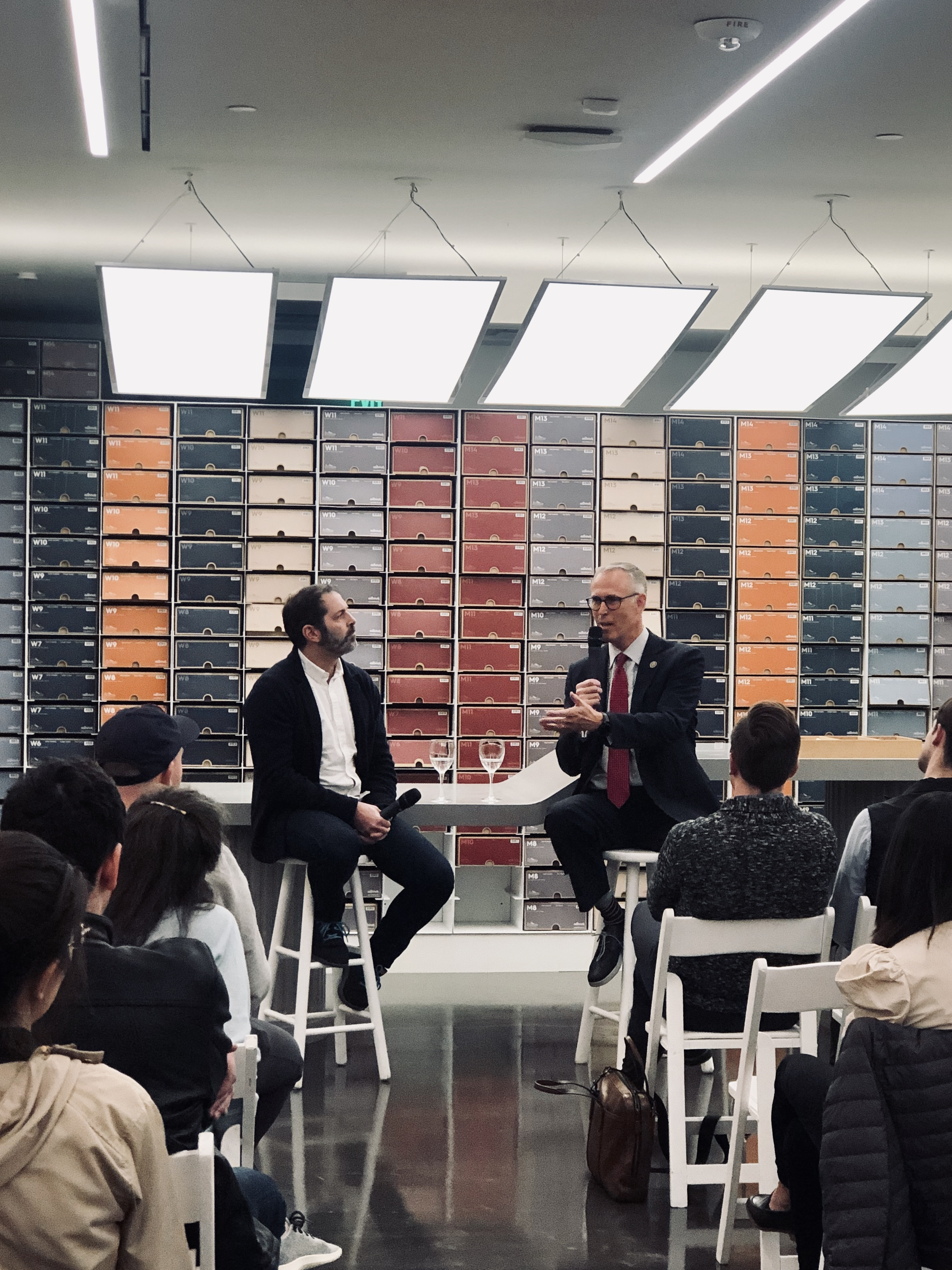 Thank you @Allbirds for inviting me to speak about how Congress and small businesses can work together to create solutions to the #ClimateCrisis. We need to #ActOnClimate so the economy can be resilient against this threat. Together we can build a cleaner future.